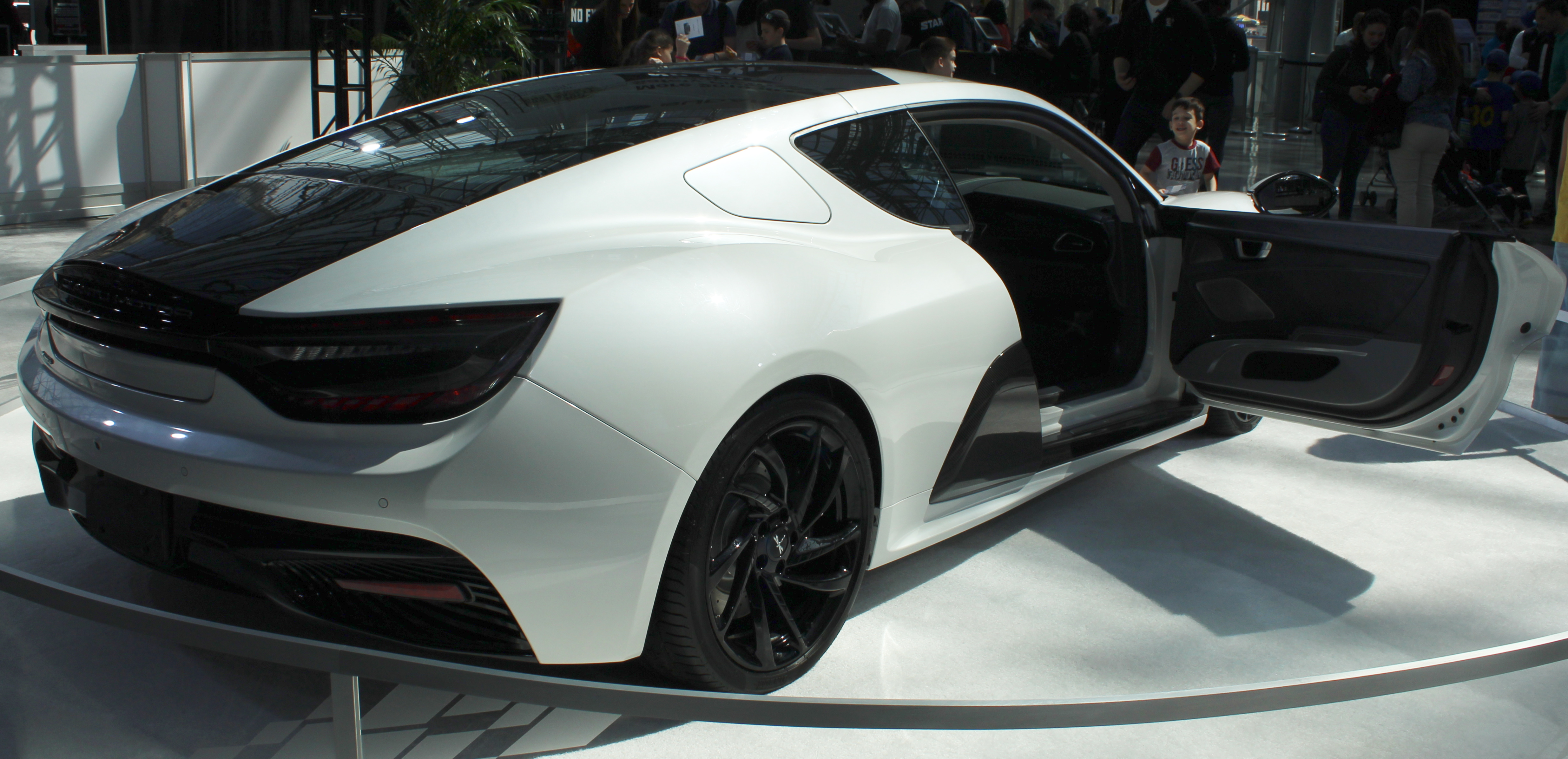 A Qiantu (前途) K50 photographed during the 2019 New York International Auto Show, in Hudson Yards, Manhattan, NYC